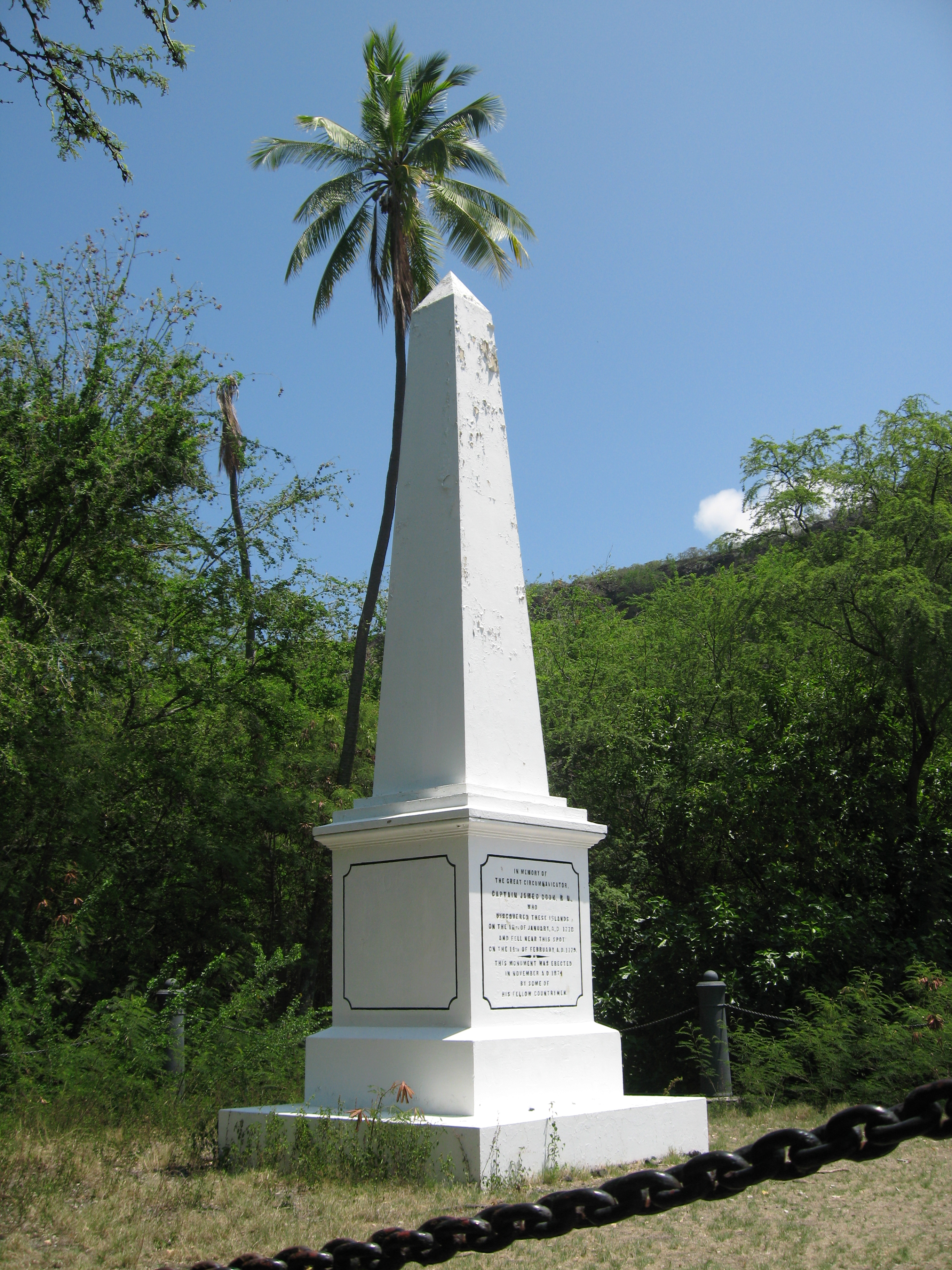 Monument to Captain Cook near the spot where he was killed at Kealakekua Bay, Hawaii.